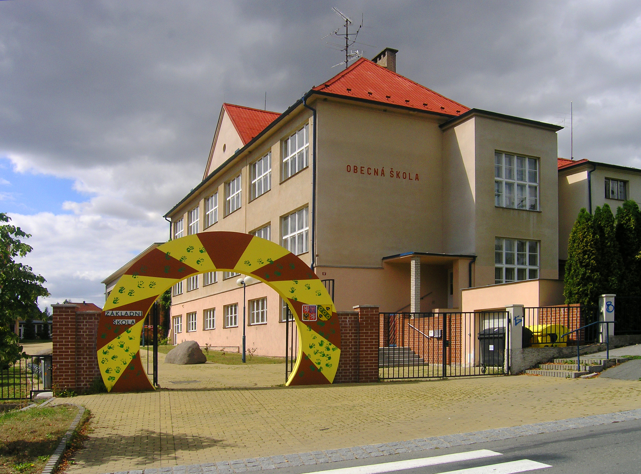 Elementary school in Kamenice, Czech Republic